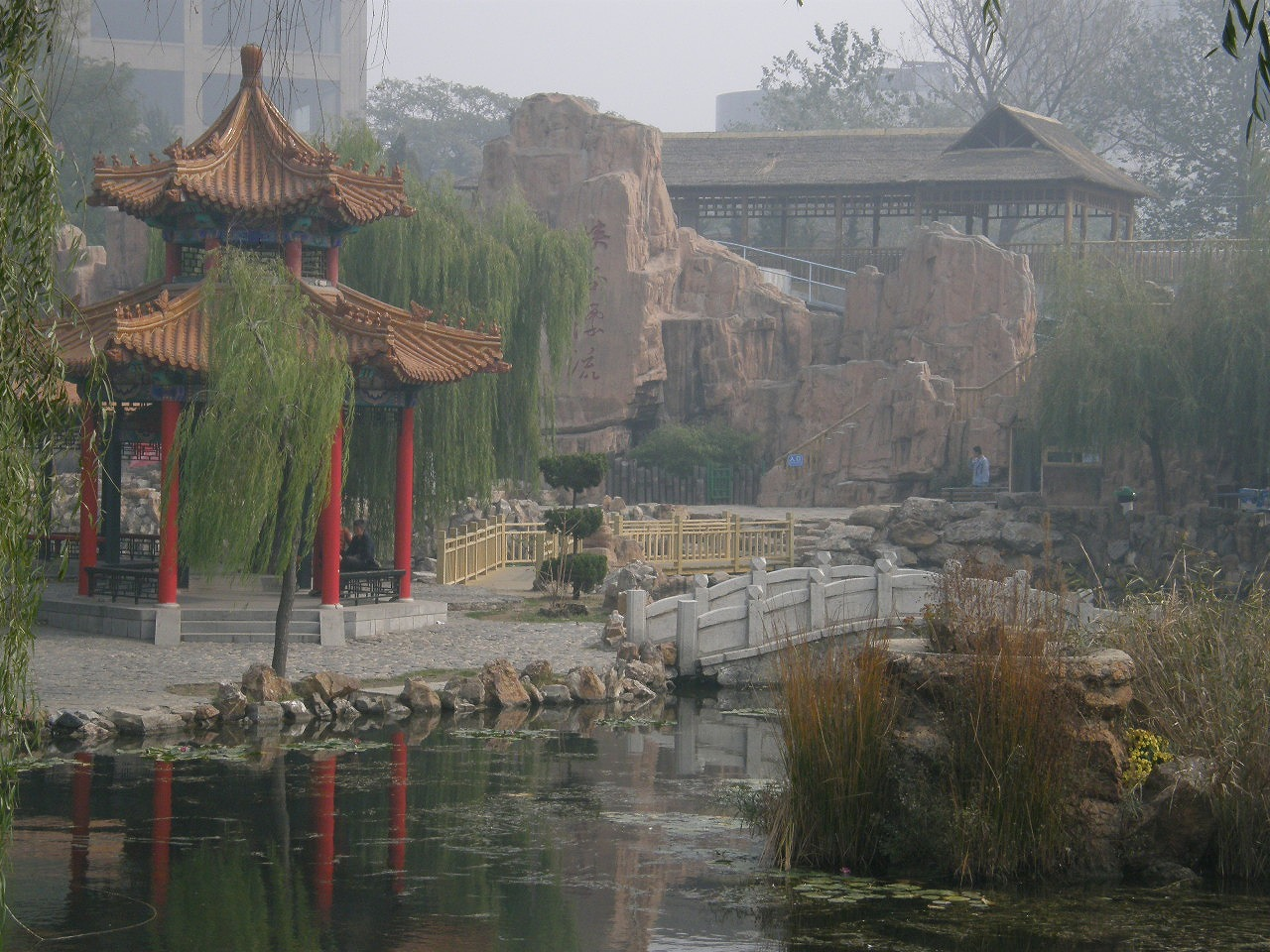 dalian劳动公园